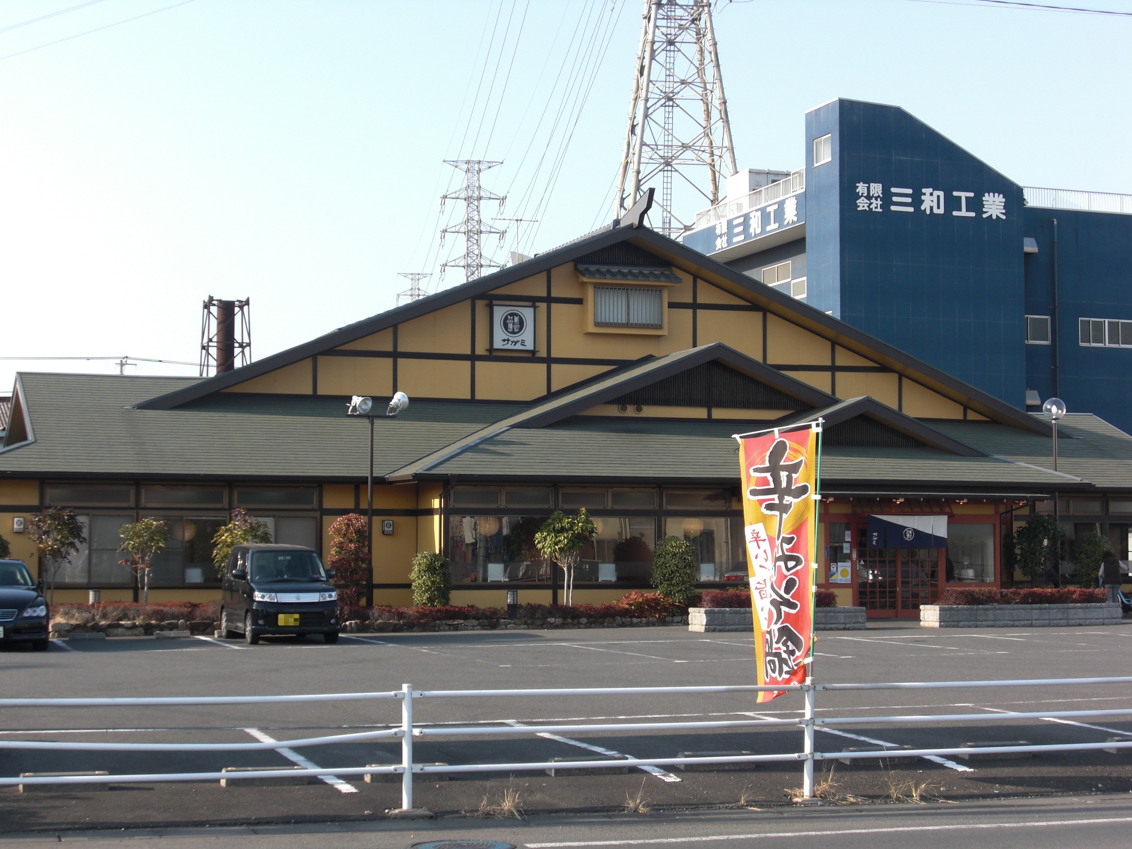 This is a Japanese restaurant chain, SAGAMI Yashio shop in Japan.